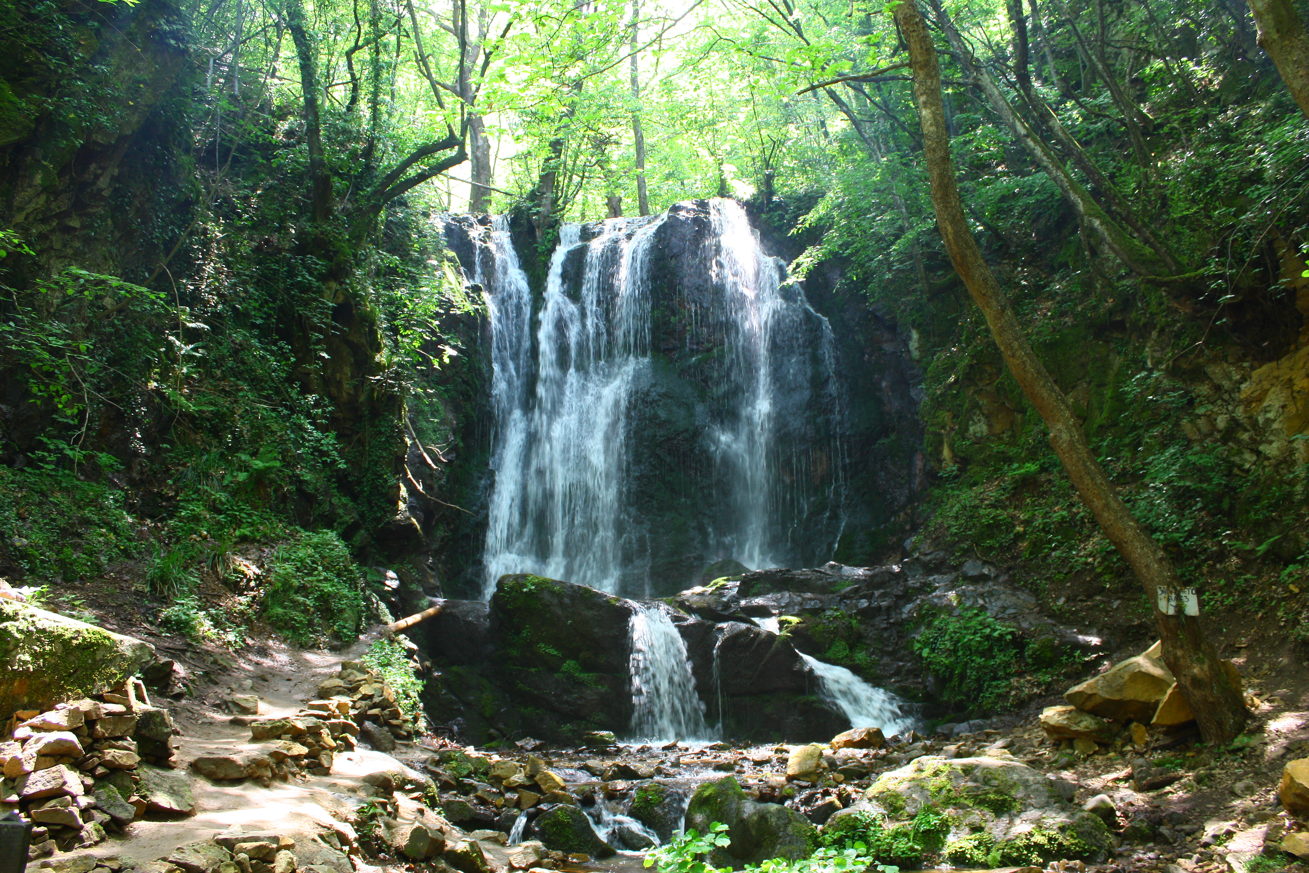 Kolešino Waterfall on Belasica Mountain, Macedonia